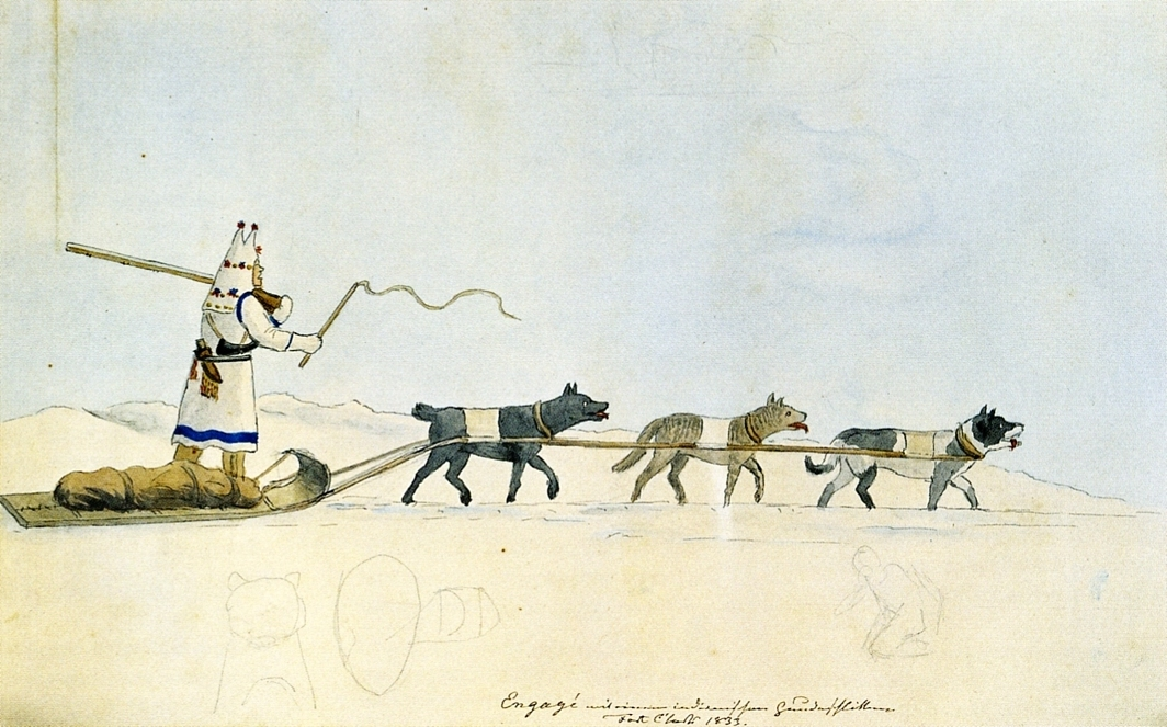 Dog sled near Fort Clark. Watercolor by Maximilian zu Wied-Neuwied 1833.